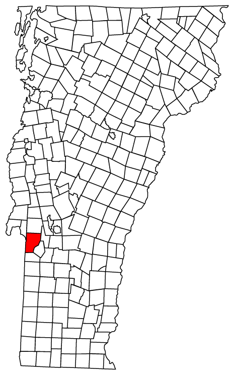 This is a simple modification of Image:West haven vt highlight.png, by Jared C. Benedict. Category:Poultney, Vermont